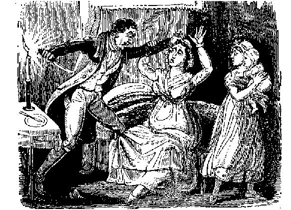 18th century illustration of murderer Matthias Brinsden stabbing his wife.